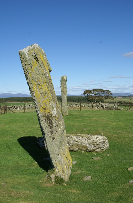 Drumtroddan Standing Stones, Dumfries and Galloway, Scotland.